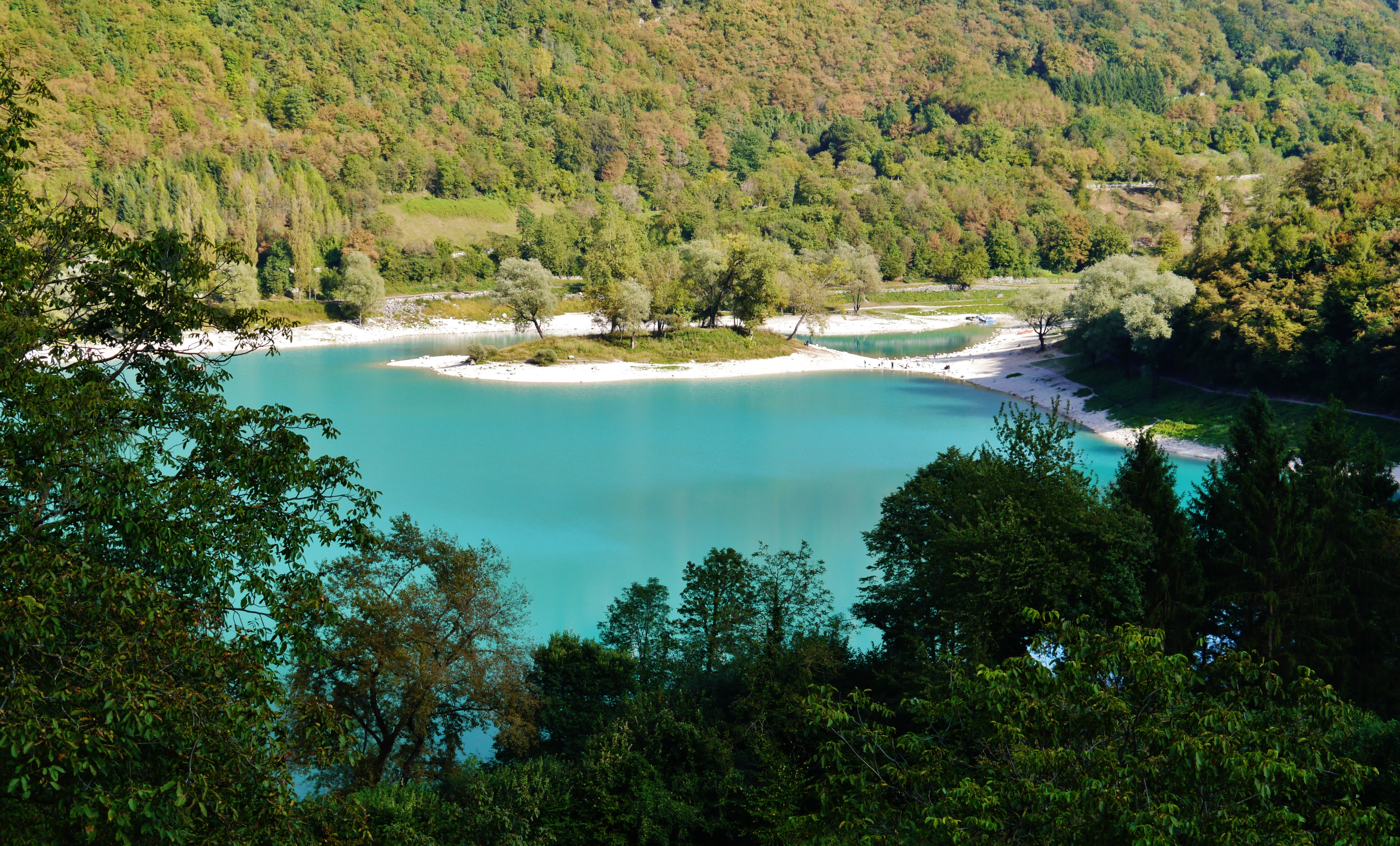 View to Lake Tenno, Tenno, Province of Trent (Trentino), Region of Trentino-Alto Adige/Südtirol, Italy